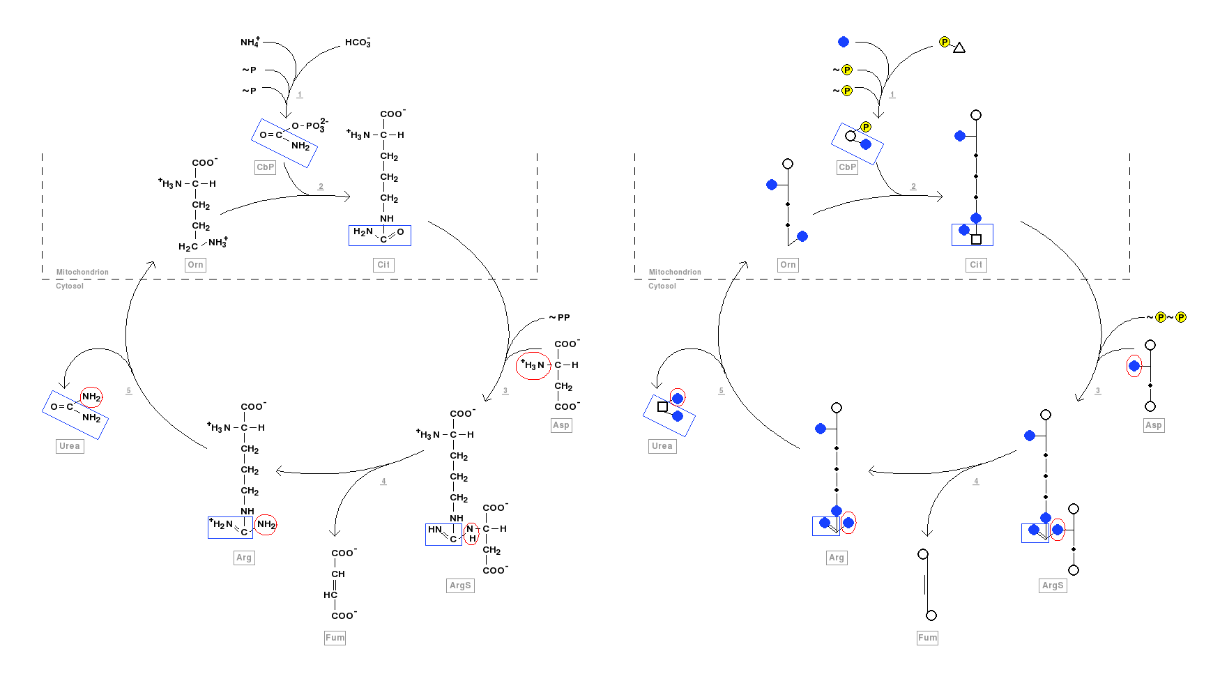 Urea cycle